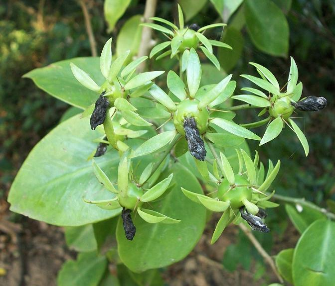 Developing fruit of Pereskia aculeata at Ilanda Wilds